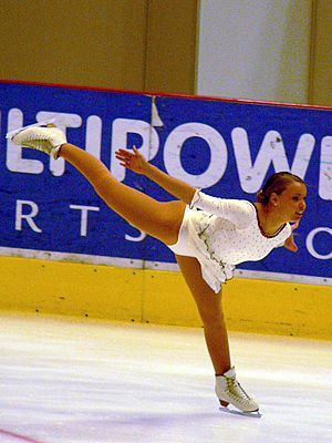 Mia Brix perform a spiral during her free skate at the 2005 Junior Grand Prix event in Zagreb, Croatia